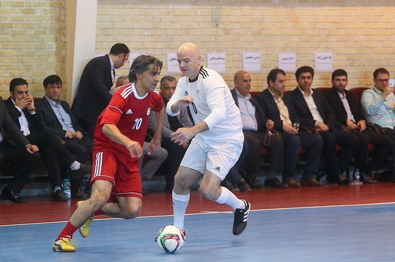 جانی اینفانتینو رئیس فیفا به ایران سفر کرد تا داربی تهران را از نزدیک تماشا کند . صبح روز ۱۰ اسفند و قبل از شروع داربی رئیس فیفا در جمع مدیران فوتبالی و بازیکنان پیشکسوت حاضر شد و با آنها گفتگو کرد و پس از آن در بازی فوتبالی دوستانه همراه با مارکو فان باستن رئیس بخش توسعه فیفا و جمعی از پیشکسوتان فوتبال ایران شرکت کرد .